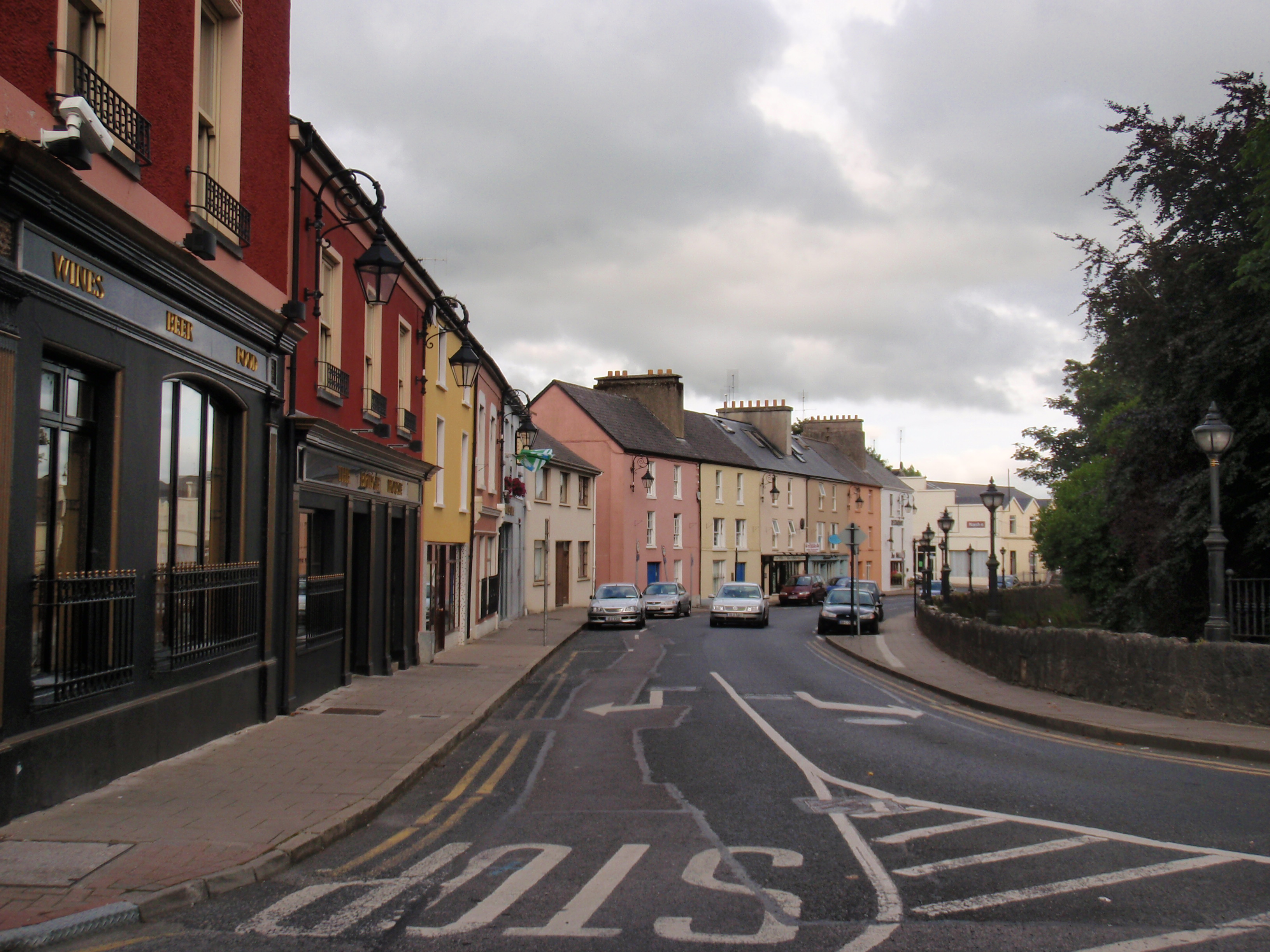 Newcastle